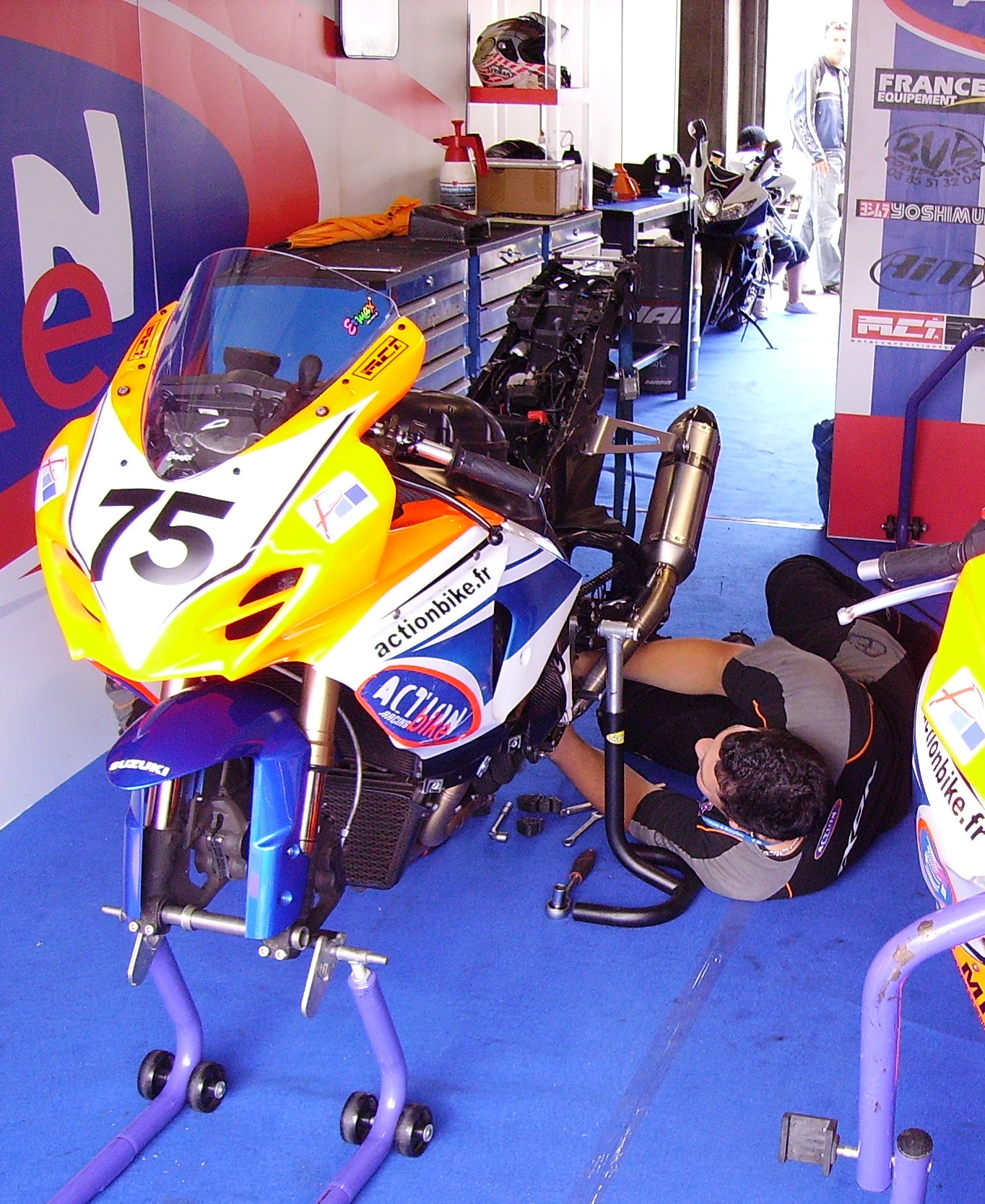 Suzuki Superbike racing motorcycle GSX-R1000 Nr 75 being repaired at stand. Fifth round of the 2009 French Superbike Championship in Magny-Cours. Pilot: Laurry Frémy. Club: MS Courneuvien.